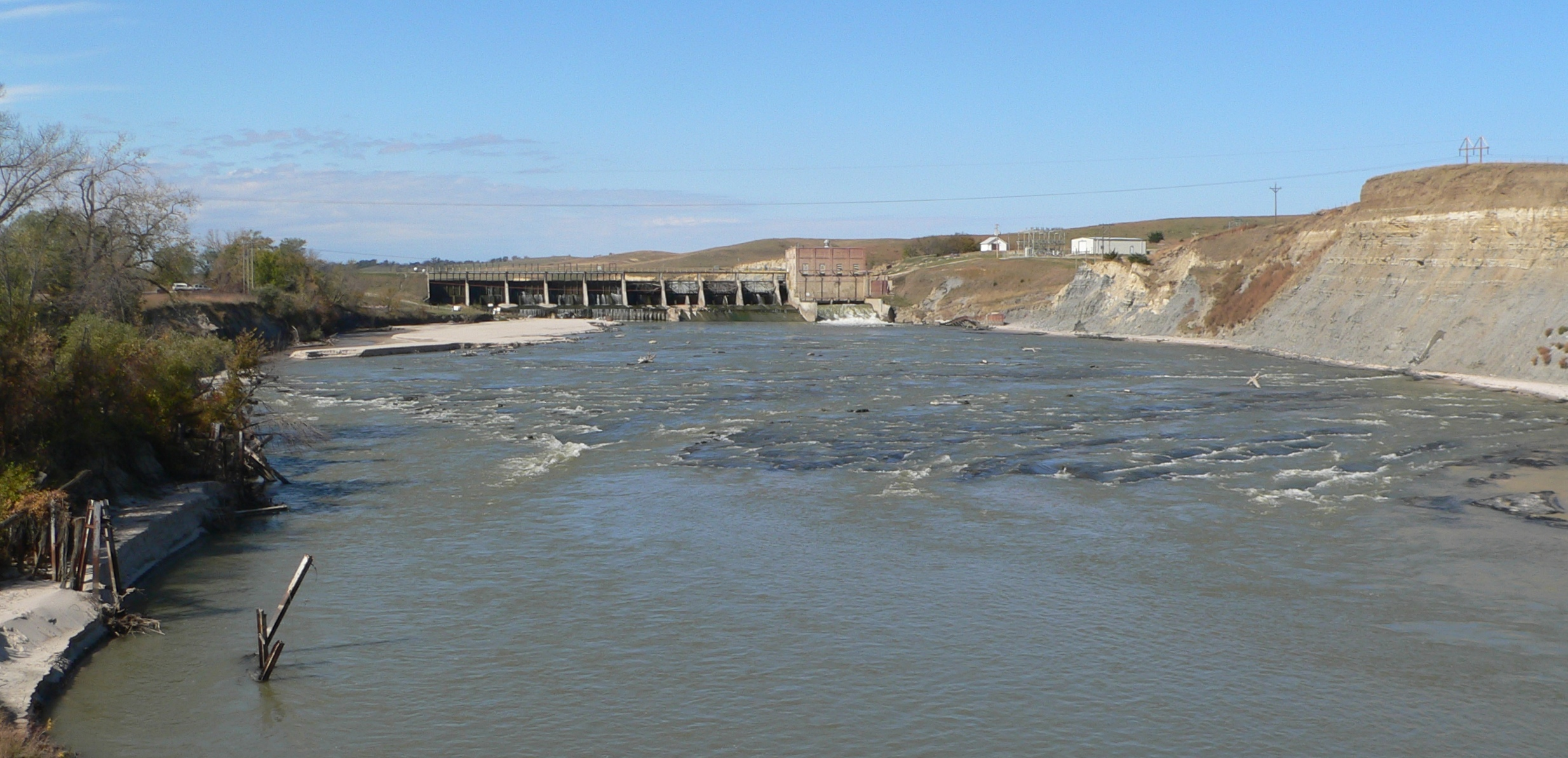 Spencer Dam, on the Niobrara River between Boyd and Holt County, Nebraska; seen from the east (downstream). The photo was taken from the U.S. Highway 281 bridge over the river.